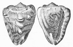 The upper side (left) and underside (right) view of the marine seashell Cassis tuberosa (Linnaeus, 1758)[1]; taken from Cuvier, Georges; Blyth, Edward; Mudie, Robert; Johnston, George; Westwood, J. O. (John Obadiah); Carpenter, William Benjamin; The animal kingdom, arranged after its organization, forming a natural history of animals, and an introduction to comparative anatomy (1854)[2]; page 365 (fig. 181).